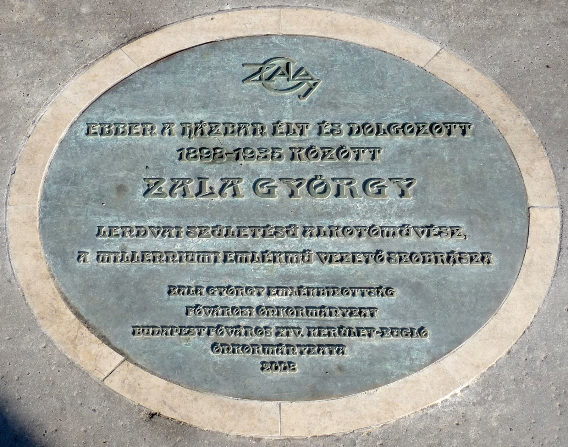 Commemorative plaque to Mr. György Zala (1858–1937), Hungarian sculptor, embedded in the pavement outside his former villa. Author of the bronz relief: József Kampfl. (Budapest, District XIV, Stefánia Avenue Nr 111).